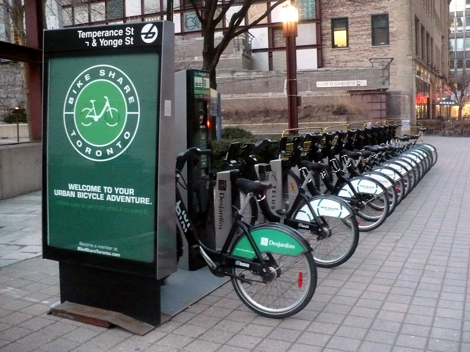 Bike Share Toronto station on Temperance Street in front of Cloud Gardens. In the background is the Dineen Building on Yonge Street.